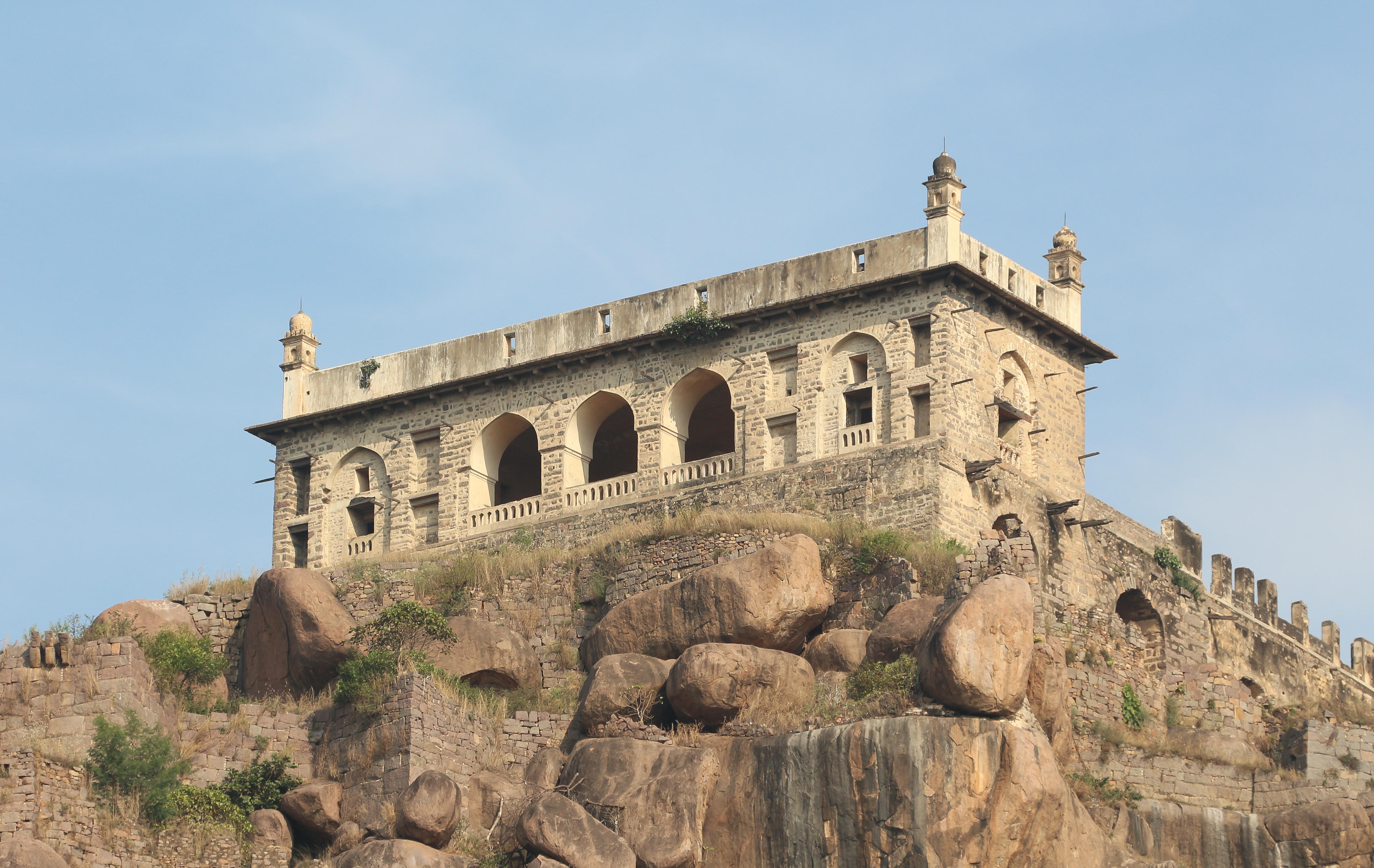 The Balahisar Baradari on the top of Golconda Fort, India